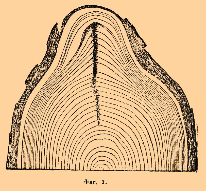 Illustration from Brockhaus and Efron Encyclopedic Dictionary (1890—1907)